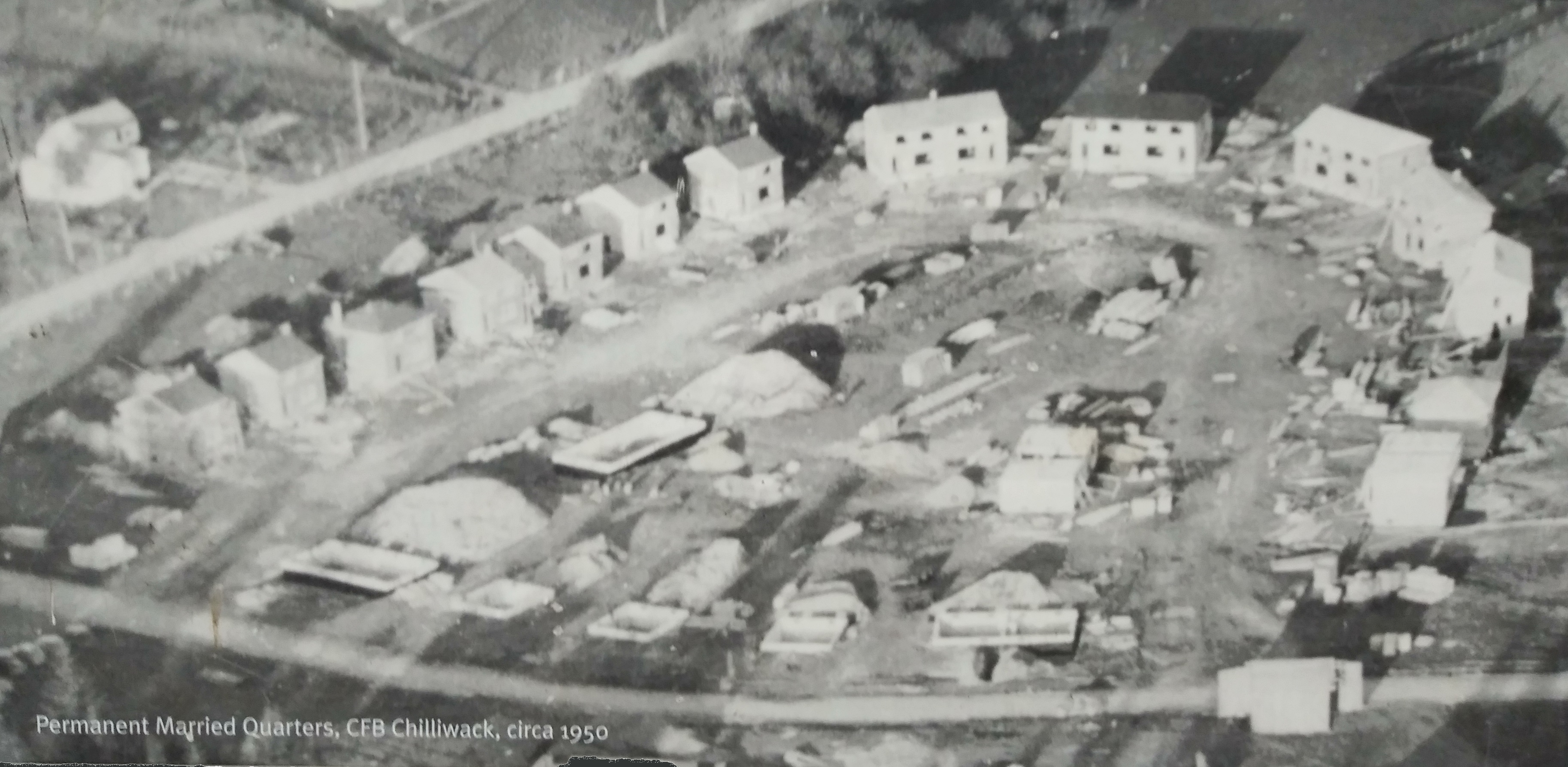 Permanent Married Quarters CFB Chilliwack circa 1949